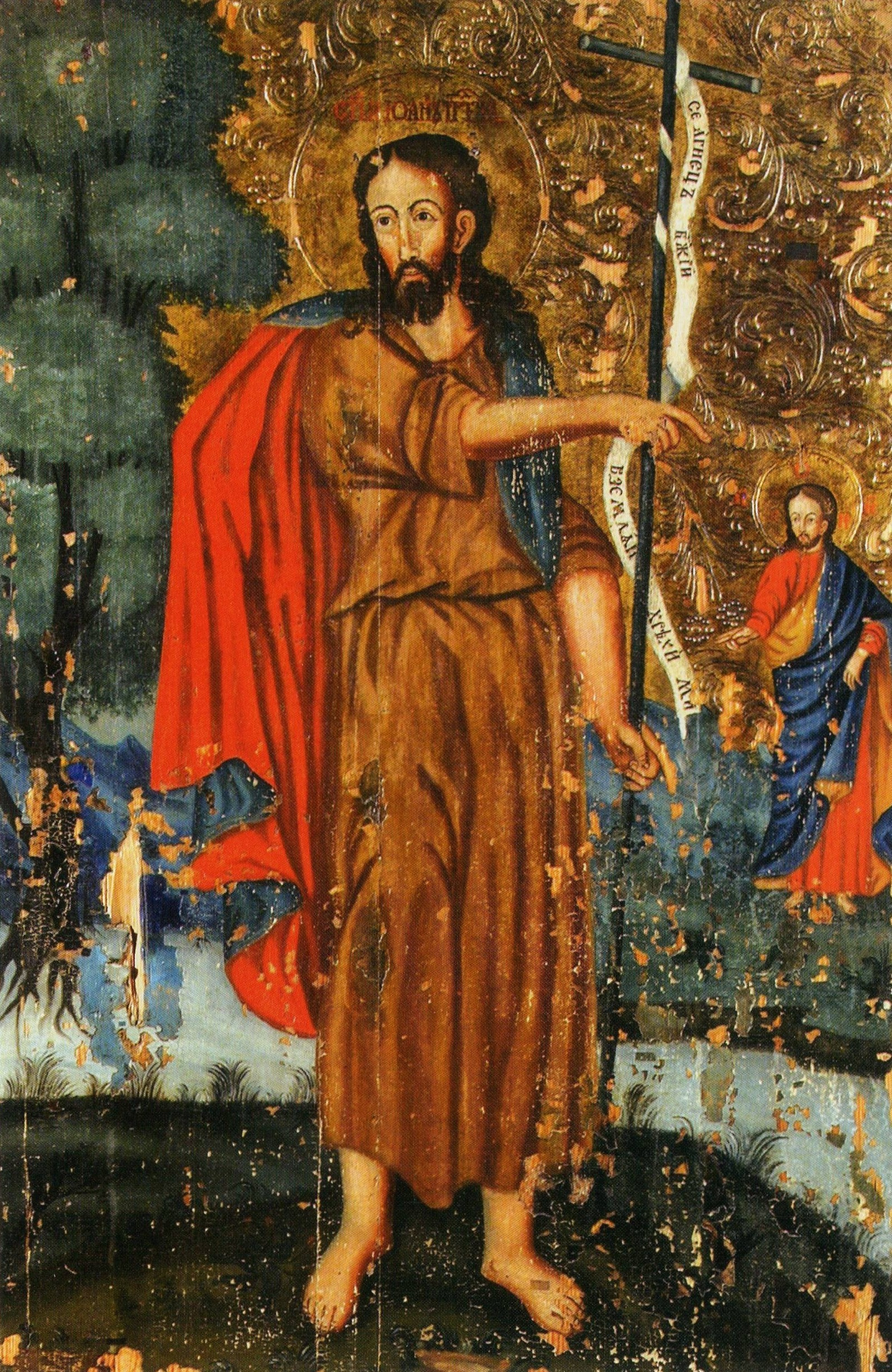 JOHN THE BAPTIST. 1st half of the 18th c. Wood, tempera. The Prachystsienskaya Church, Dubieniets, Stolin district, Brest region.